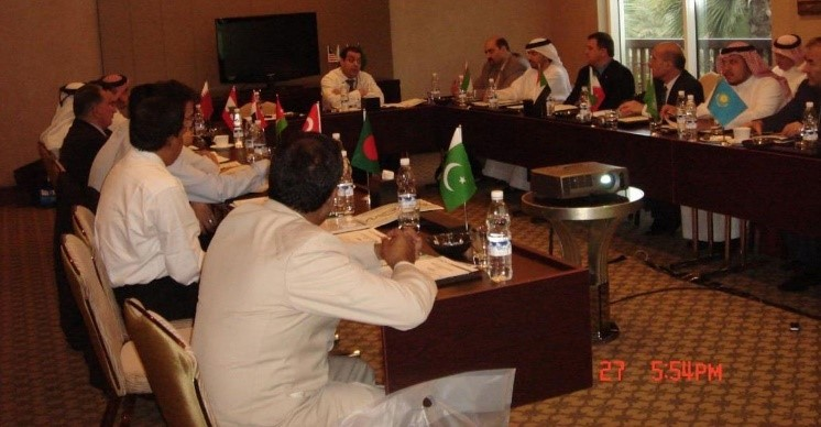 This photo was taken in the year 2006